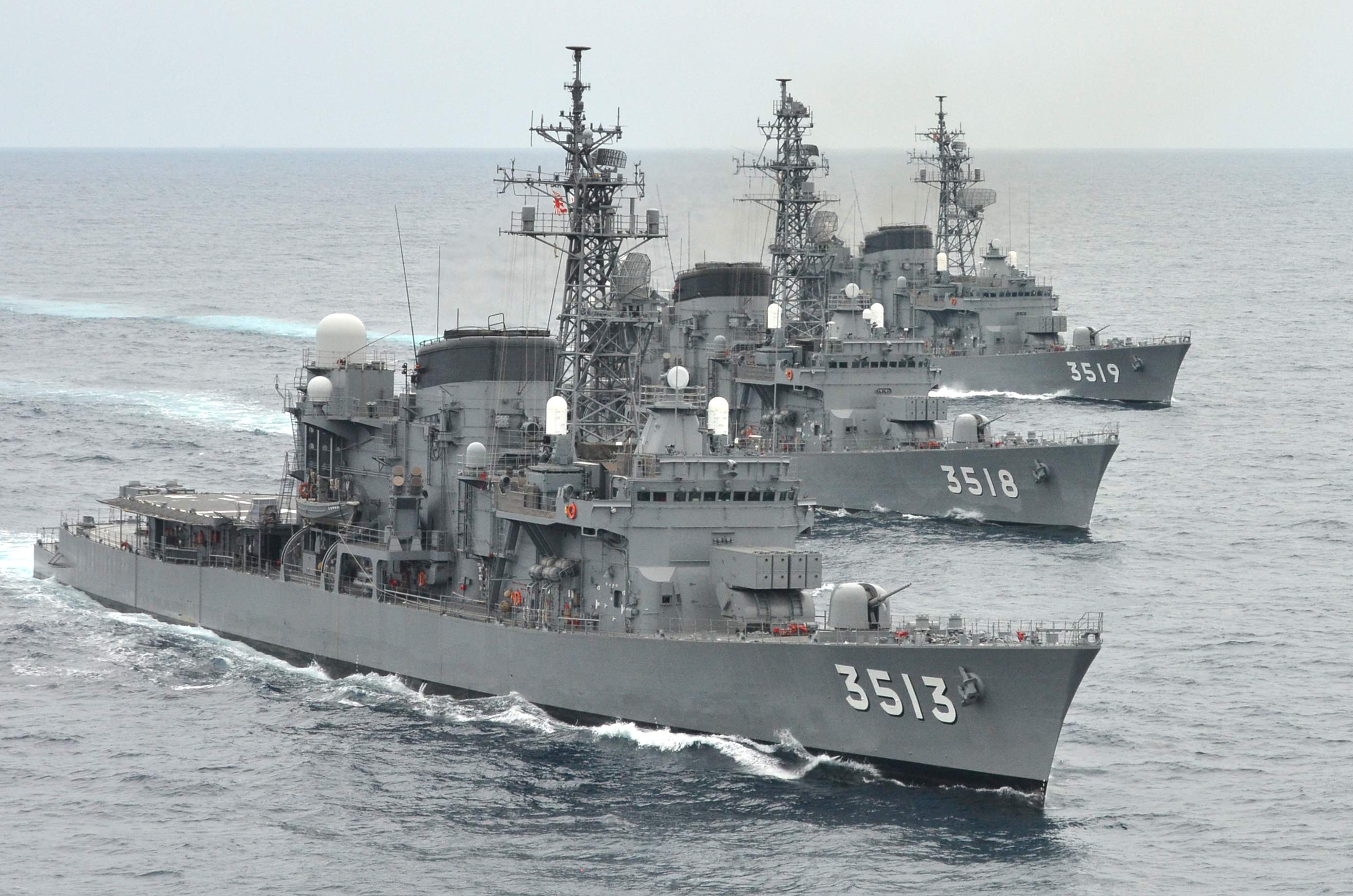 JMSDF 1St Training Division （TV-3513 JS "Shimayuki",TV-3518 JS "Setoyuki",TV-3519 JS "Yamayuki"）